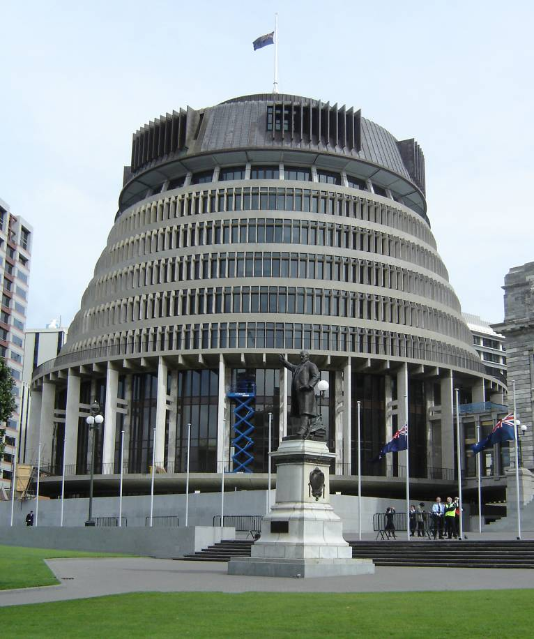 Photo of the "Beehive", Parliament Buildings, Wellington, New Zealand. The flags are at half-mast to mark the death of Pope John Paul II on 2 April 2005